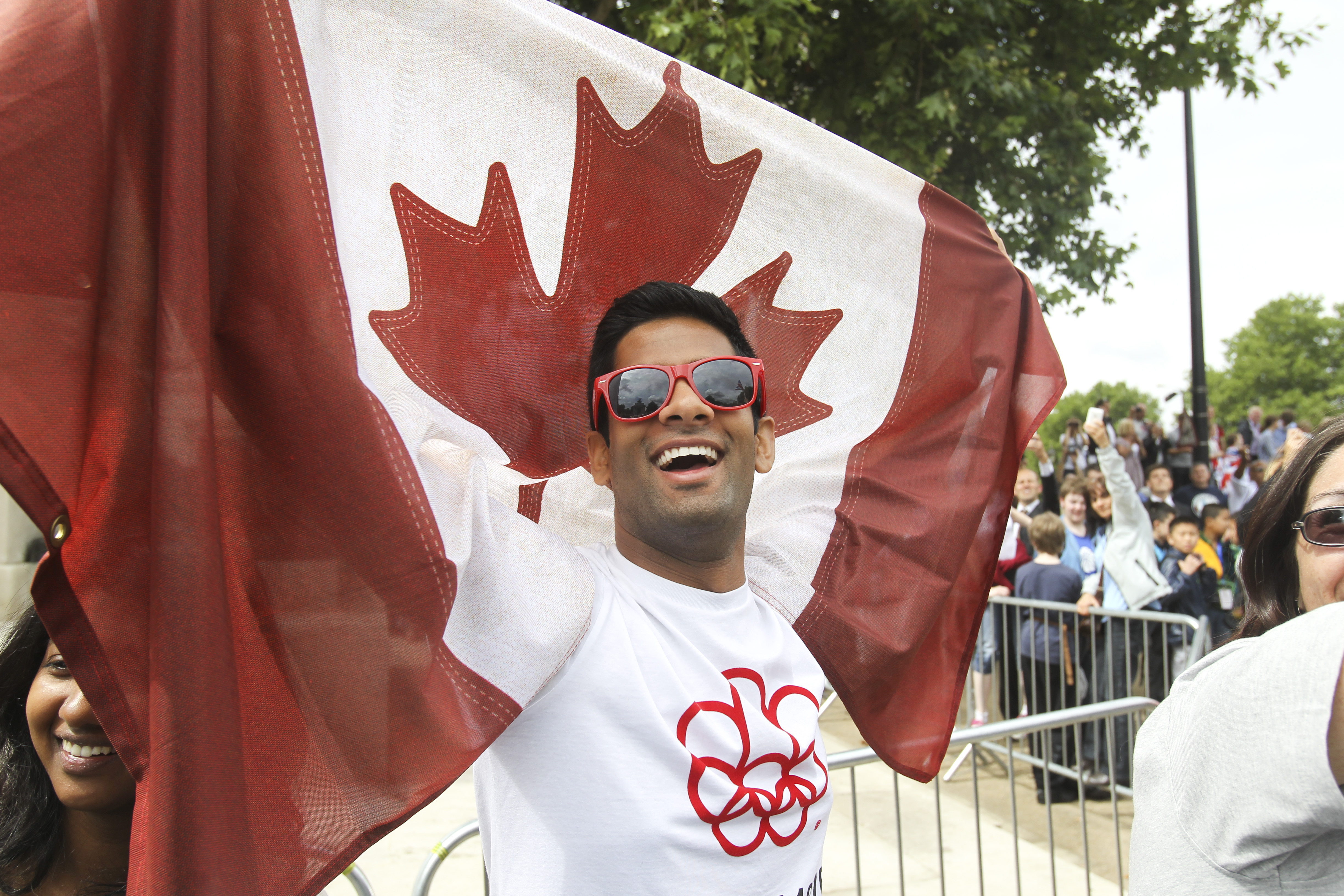 07.08.12 Action from the Triathlon Canadian fan at Hyde Park corner Picture by David Poultney